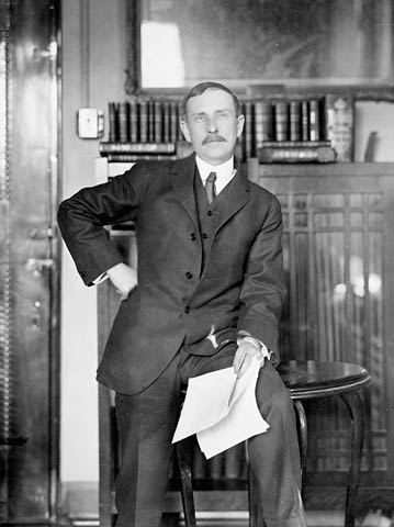 Dr. Arthur G. Doughty in his office